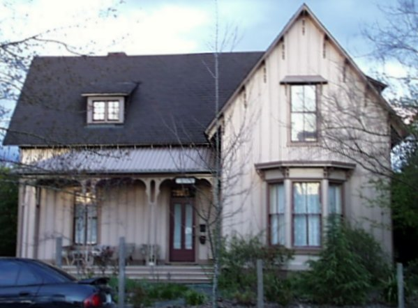 Peters-Liston-Wintermeier house, circa 1869-70, on Lincoln St. in Eugene, Oregon. It is considered one of the finest examples of the Rural Gothic Style in Oregon.